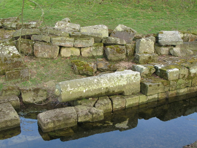 Roman column at Chesters bridge abutment